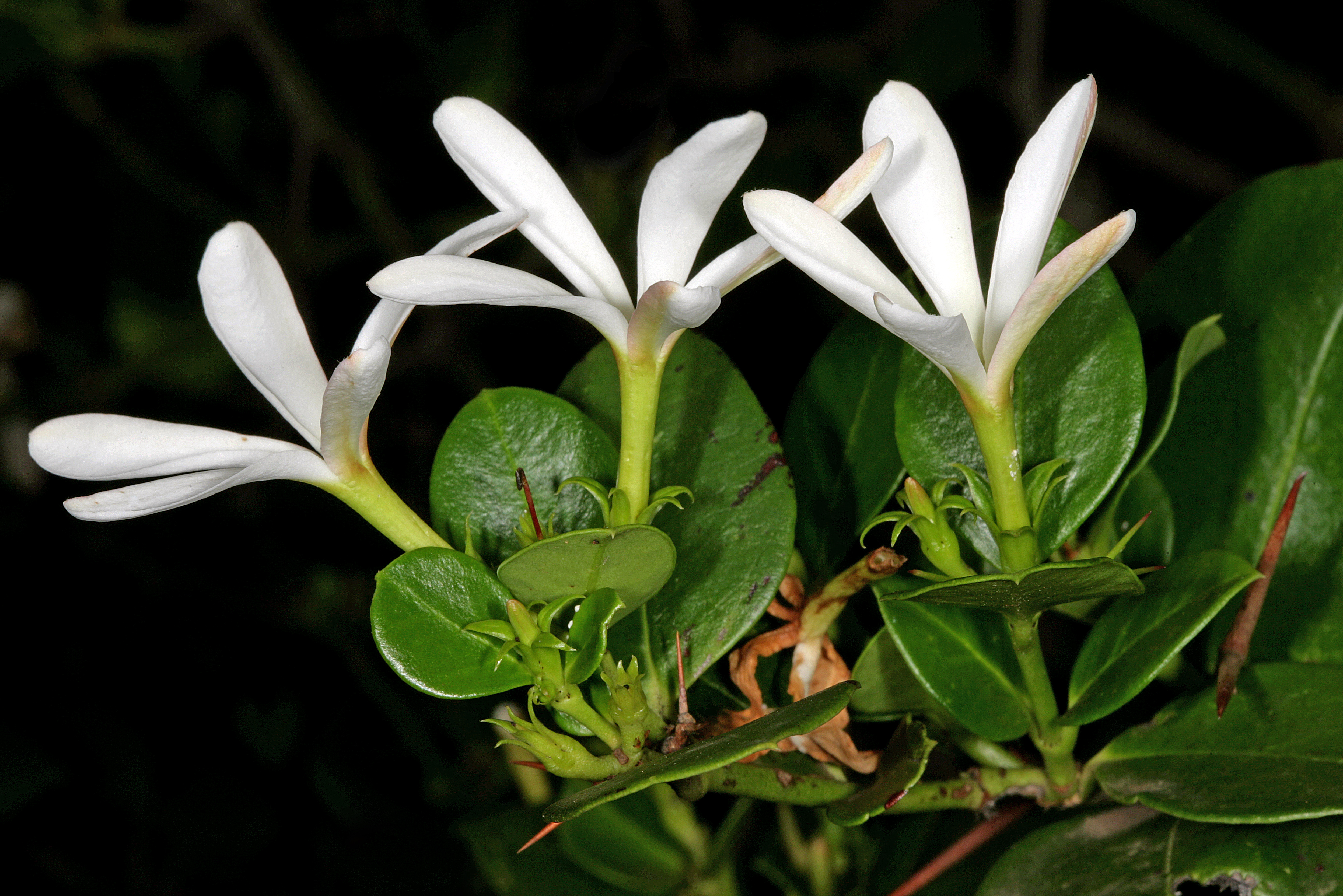 Carissa macrocarpa, flowers; Pretoria National Botanical Garden, Pretoria, Gauteng, South Africa